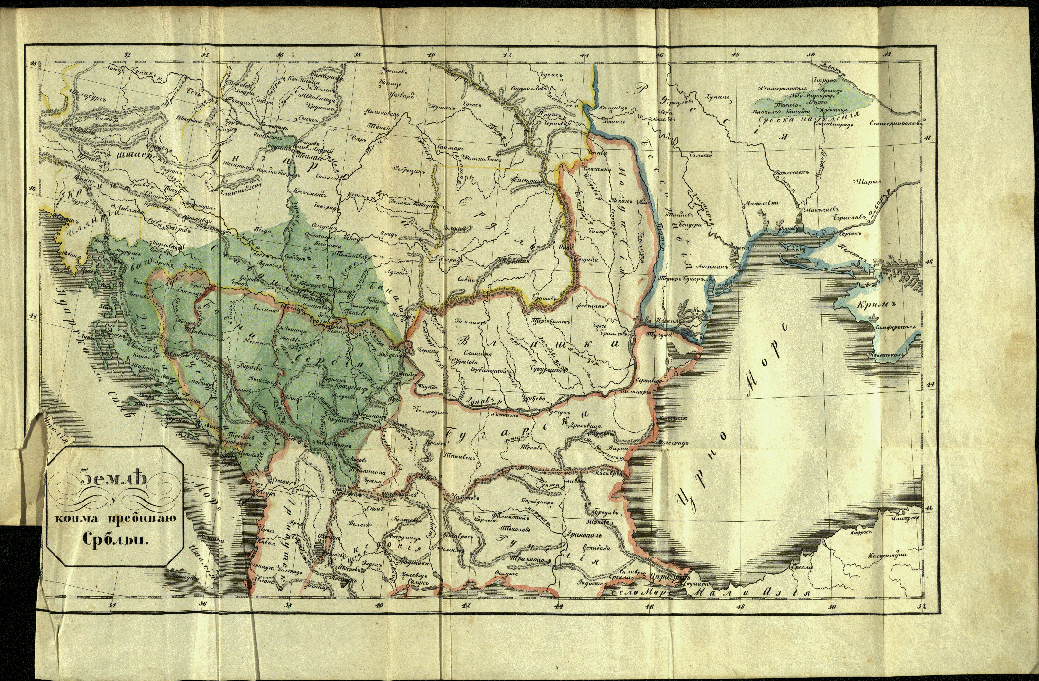 Second edition of the map called „Territories inhabited by Servians” from 1846. It forms a supplement to the book: „History of the Servian People, edited by Dimitrije Davidovic.” This map has originally appeared in Vienna in 1821, where it was published at the cost of the Serbian State. It was reprinted in Belgrade after the death of Davidovic in 1846 and in 1848. It shows the ethnological boundaries of the Serbian people. There are some distinctions between the different editions, regarding the map borders. A detail retrived from the third edition of the same map, shows some differences in its southeastern border. It is visible in the book "Bulgarians in Macedonia on p. 93. It was published by the Bulgarian Academy of Sciences and Arts with author Prof. Jordan Ivanov in 1915. You can see also bellow a link to the original version from 1821. The description of that southeastern border-line reads as follows in "Ethnic Mapping on the Balkans (1840–1925): a Brief Comparative Summary of Concepts and Methods of Visualization", on p. 73: "In the map of Davidović nor the Sanjak of Novipazar neither Kosovo was described as Serb. The fact that his work has been published at the expense of the Servian State and that it was translated in French means, that his work was bearing the full approval of the Servian Government of that time. Macedonia, but also the towns Niš, Leskovac, Vranja, Pirot were also situated outside the boundaries of the Serbian race". The book is issued by the Hungarian Academy of Sciences with authors G. Demeter, Zs. Bottlik and Kr. Csaplár-Degovic.